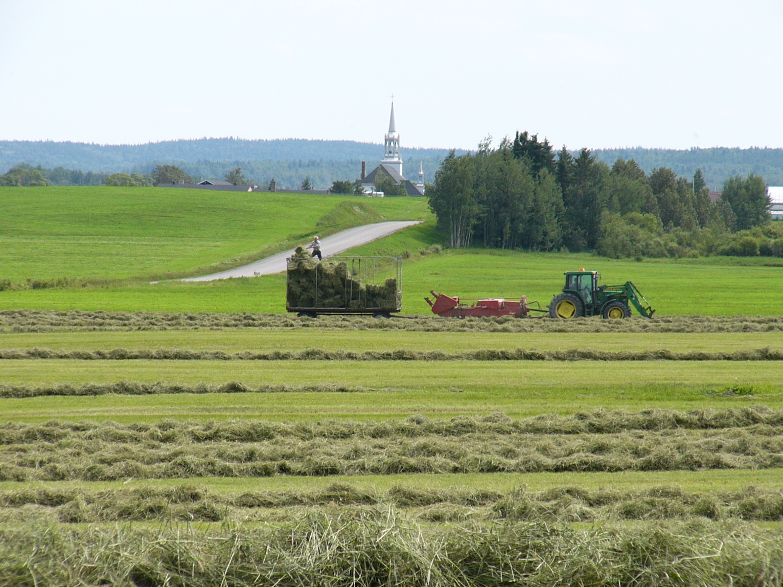 Hay baling in Sainte-Germaine-Boulé, Quebec